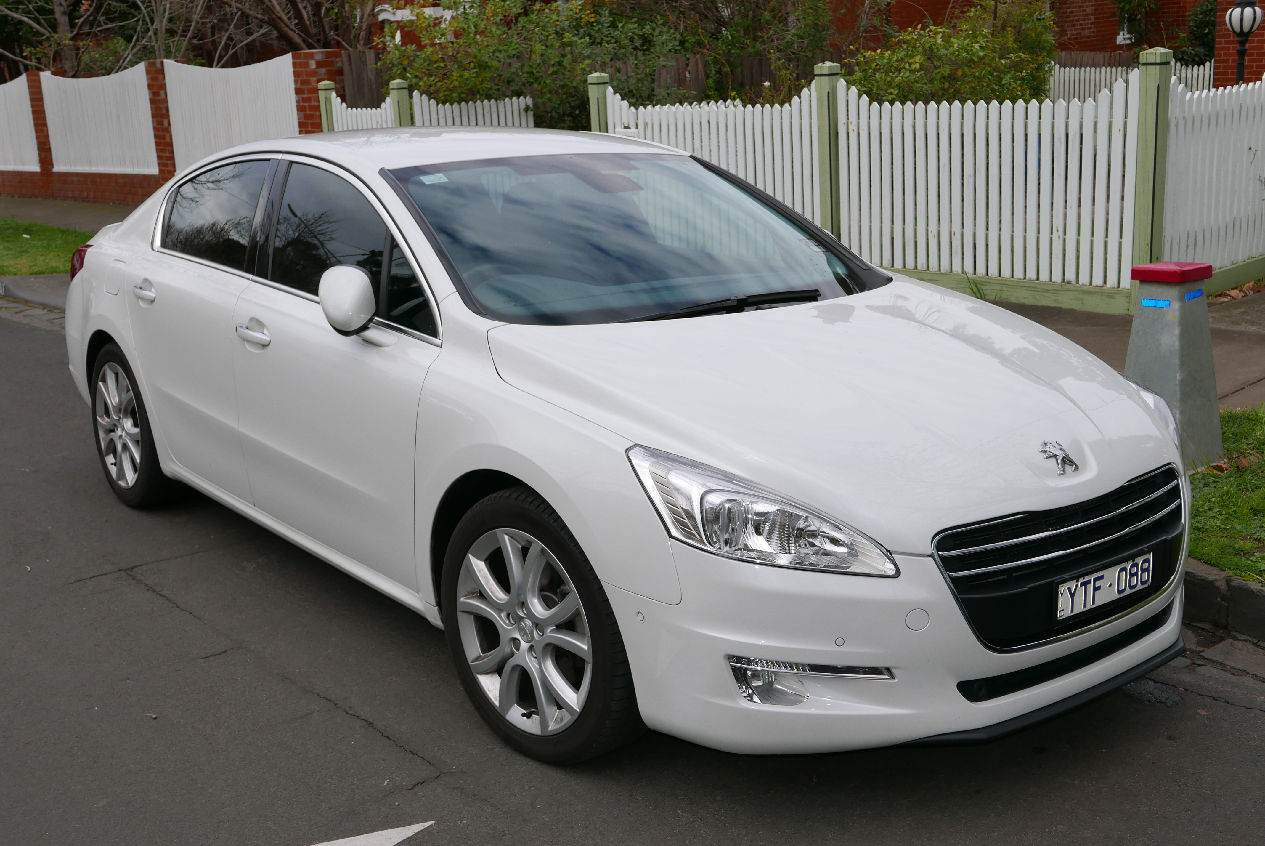 2011 Peugeot 508 Allure HDi sedan. Photographed in Hawthorn, Victoria, Australia. Vehicle registration enquiry results Jurisdiction Victoria Registration YTF088 Chassis code VF38DRHHABL087447 Engine code 10DYYG4035439 Compliance date 2011-12 Year of manufacture 2011